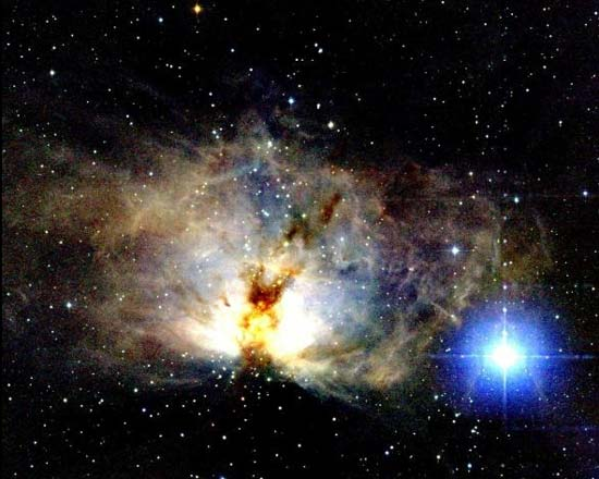 Flame Nebula (no border). "Atlas Image [or Atlas Image mosaic] obtained as part of the Two Micron All Sky Survey (2MASS), a joint project of the University of Massachusetts and the Infrared Processing and Analysis Center/California Institute of Technology, funded by the National Aeronautics and Space Administration and the National Science Foundation." seen here: and here